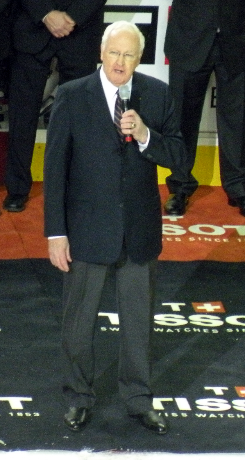 Former National Hockey League Player, president of Hockey Canada and vice-president of the International Ice Hockey Federation Murry Costello speaks to the crowd following the gold medal game of the 2012 World Junior Hockey Championships at Calgary, Alberta, Canada.